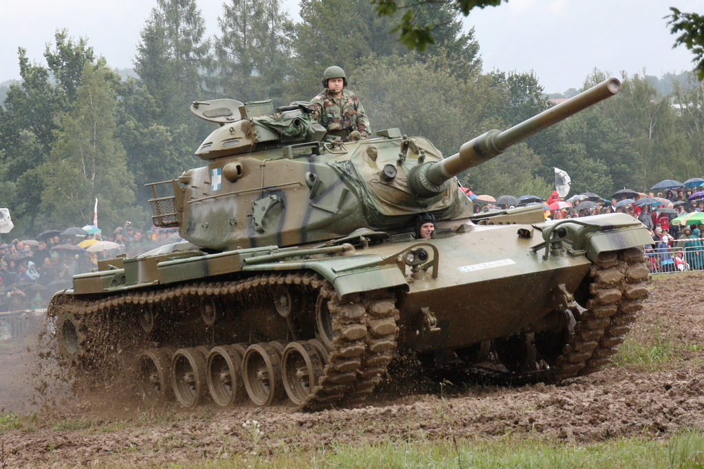 Former Greek M60A1 Patton tank during 8th 'Tank Day' in Military Technical Museum Lešany.